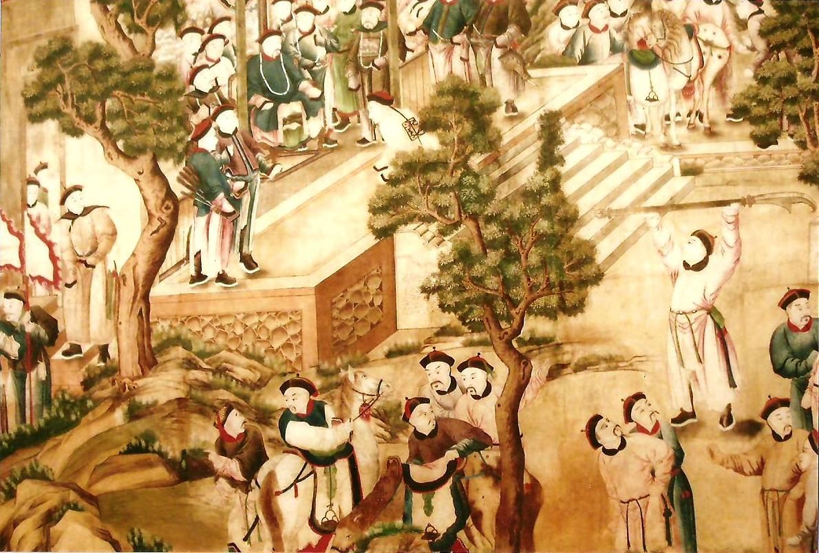 Detail of Chinese Room in Cotilla Palace, in Guadalajara, Spain.